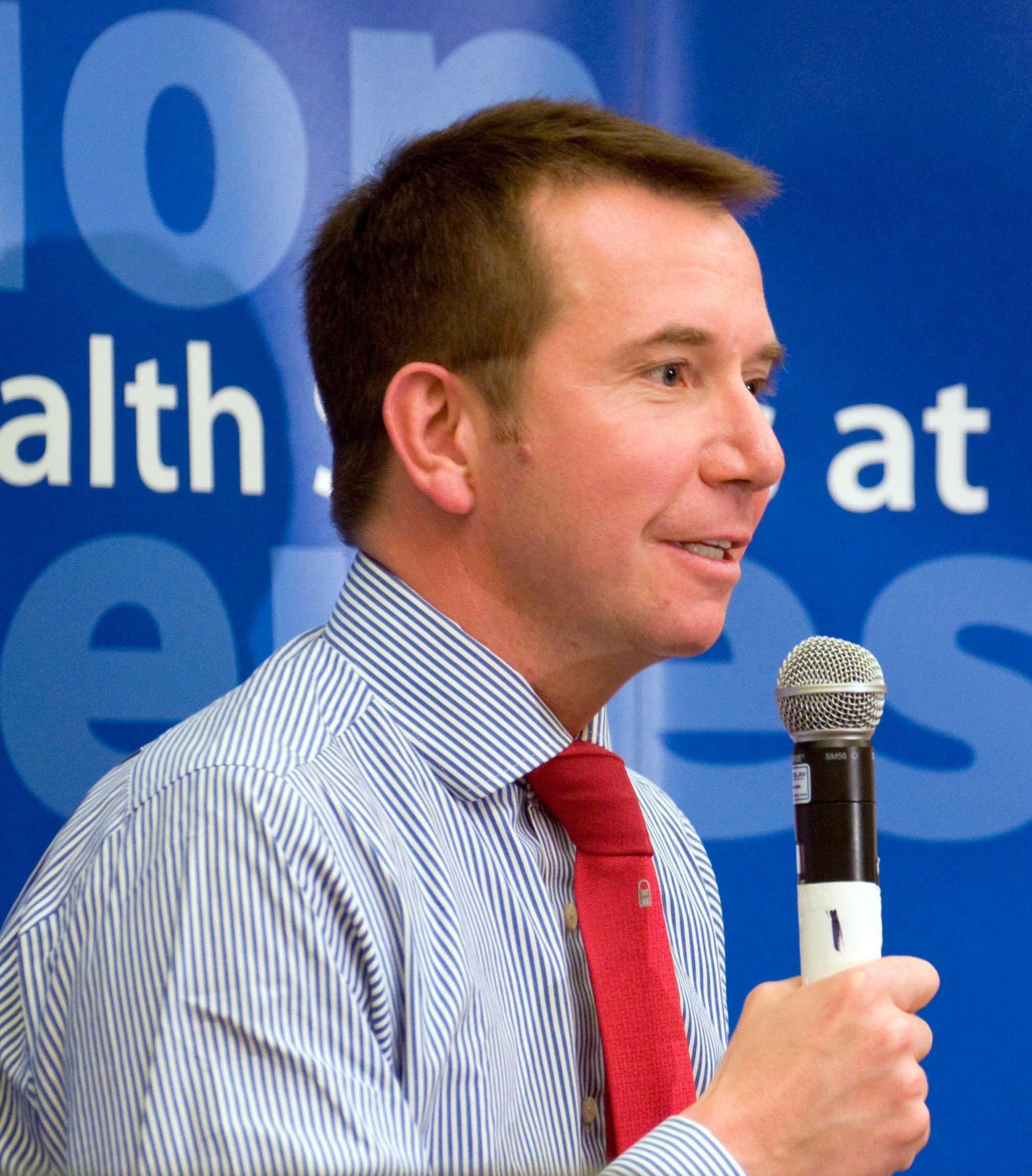 Scott Brison, Canadian Member of Parliament for Kings—Hants